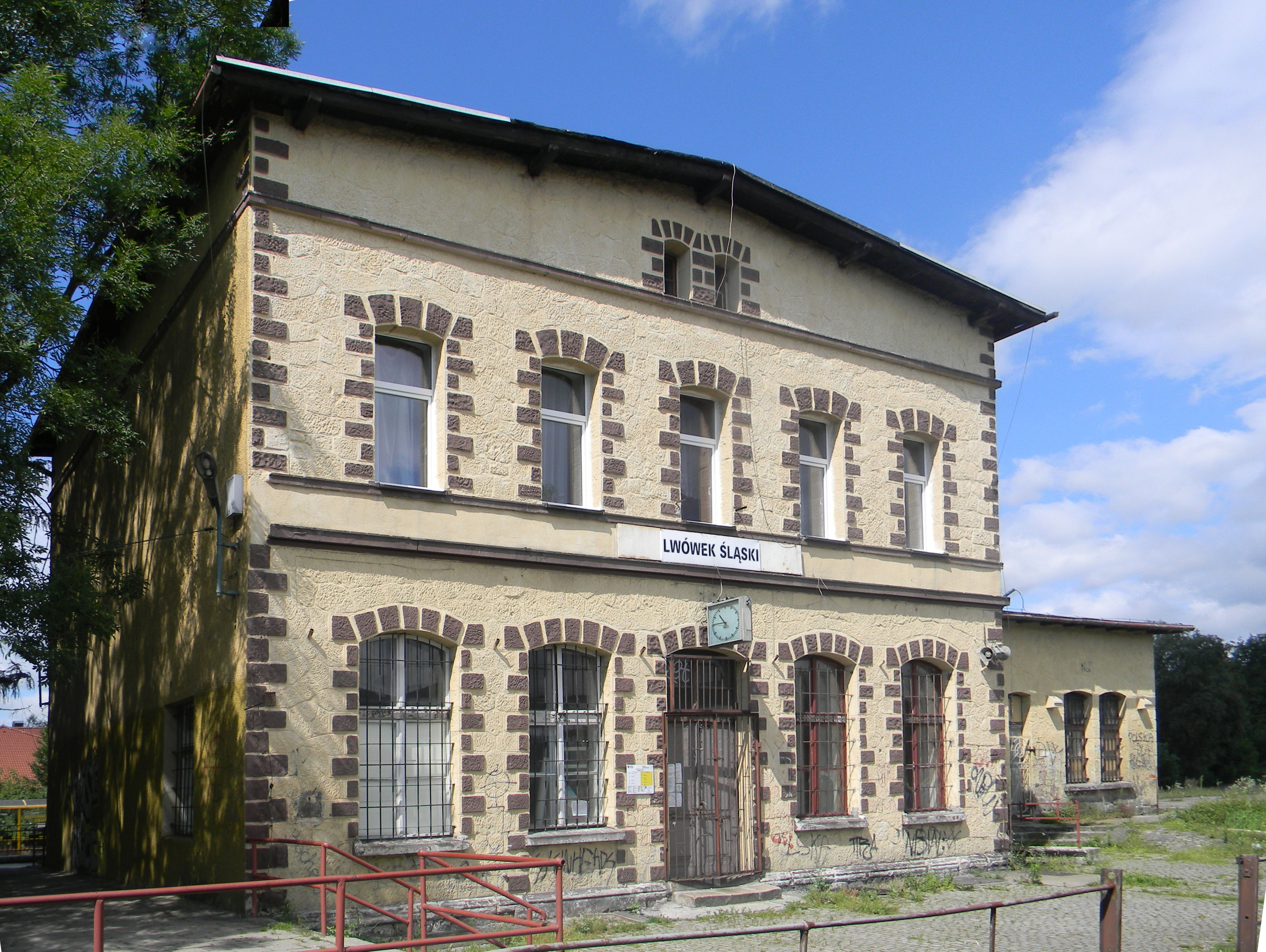 Inactive railway station in Lwowek Slaski. Poland. Sight from rails.